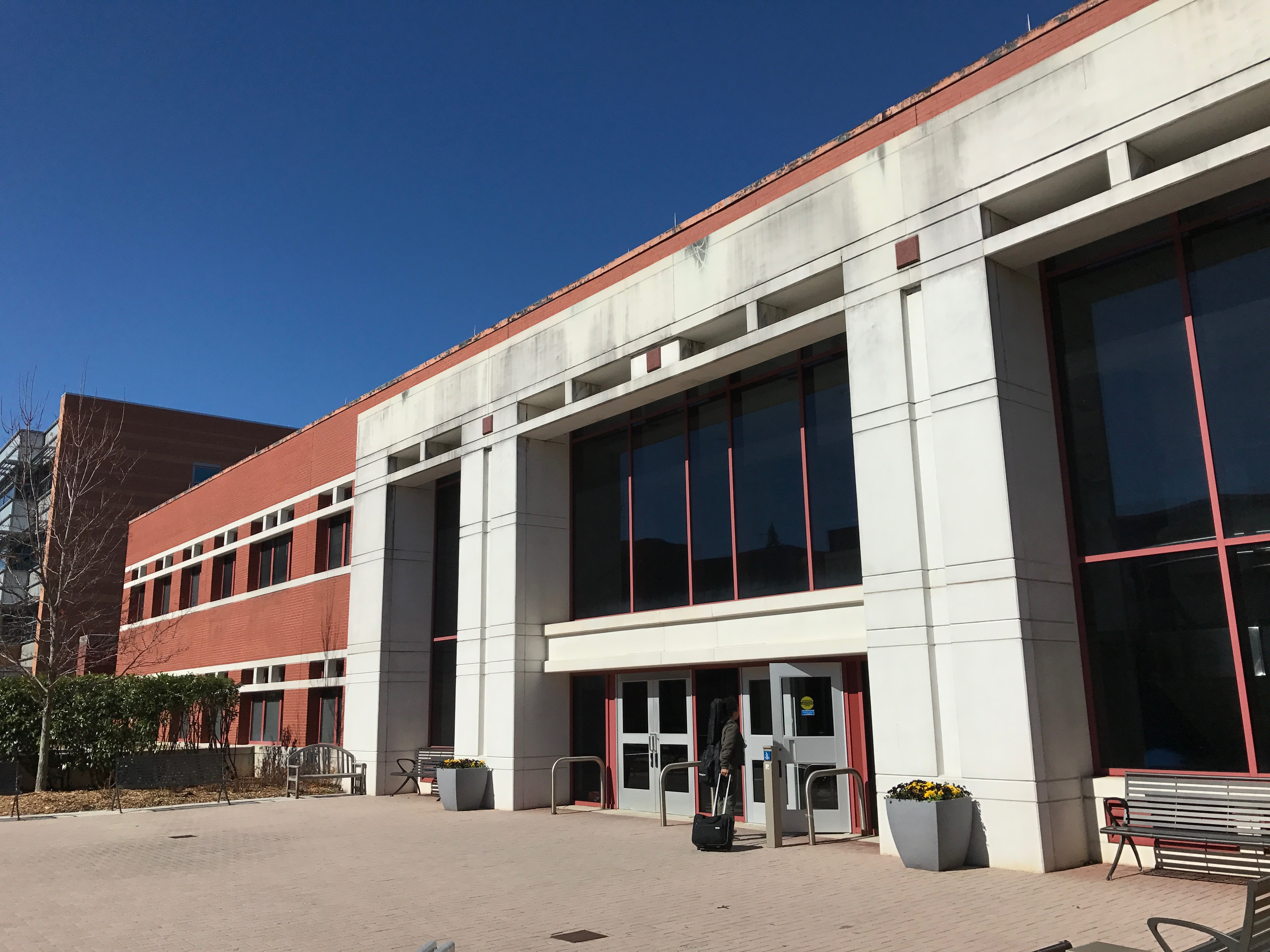 Photograph by Eli Pousson, 2017 April 5.